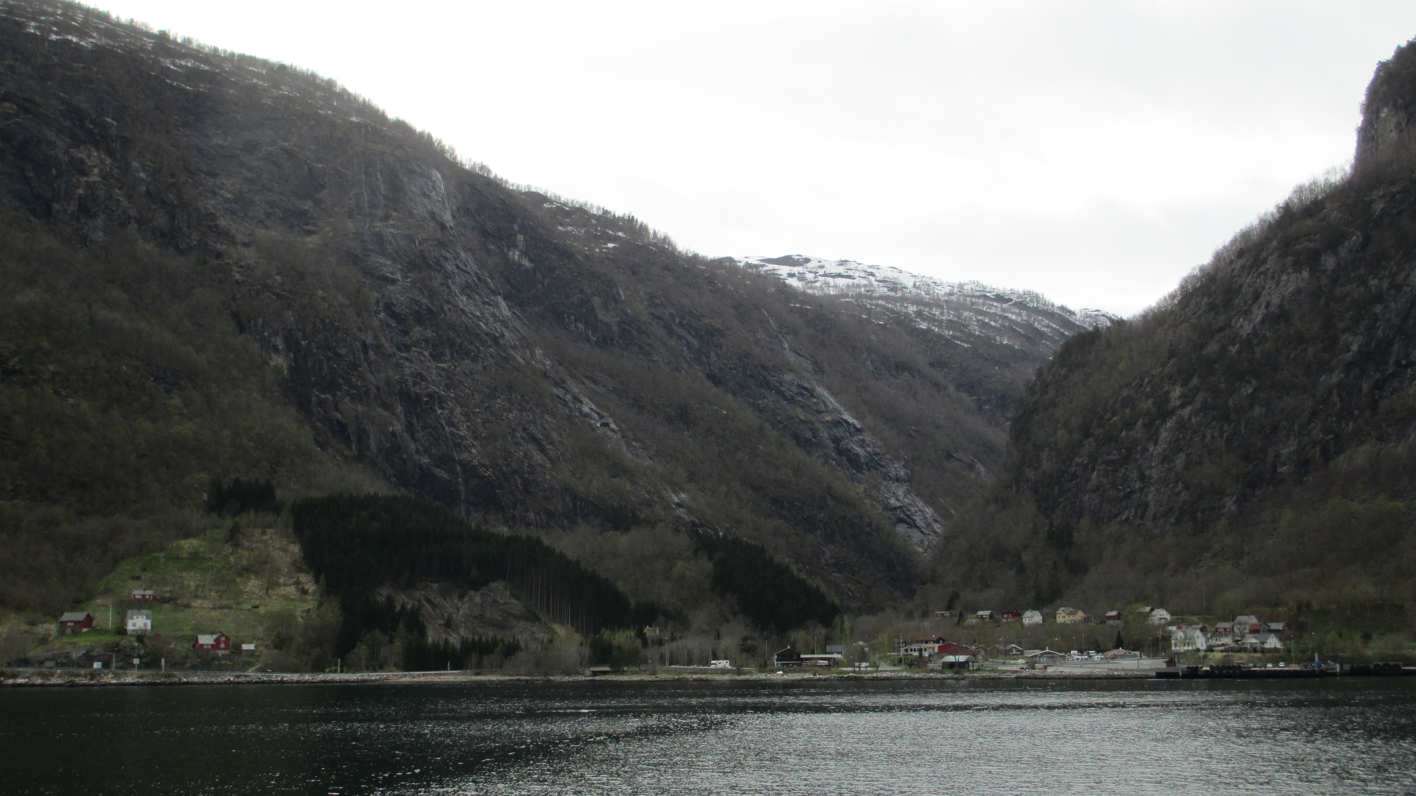 Kvanndal, Granvin municipality, Hordaland county, Norway